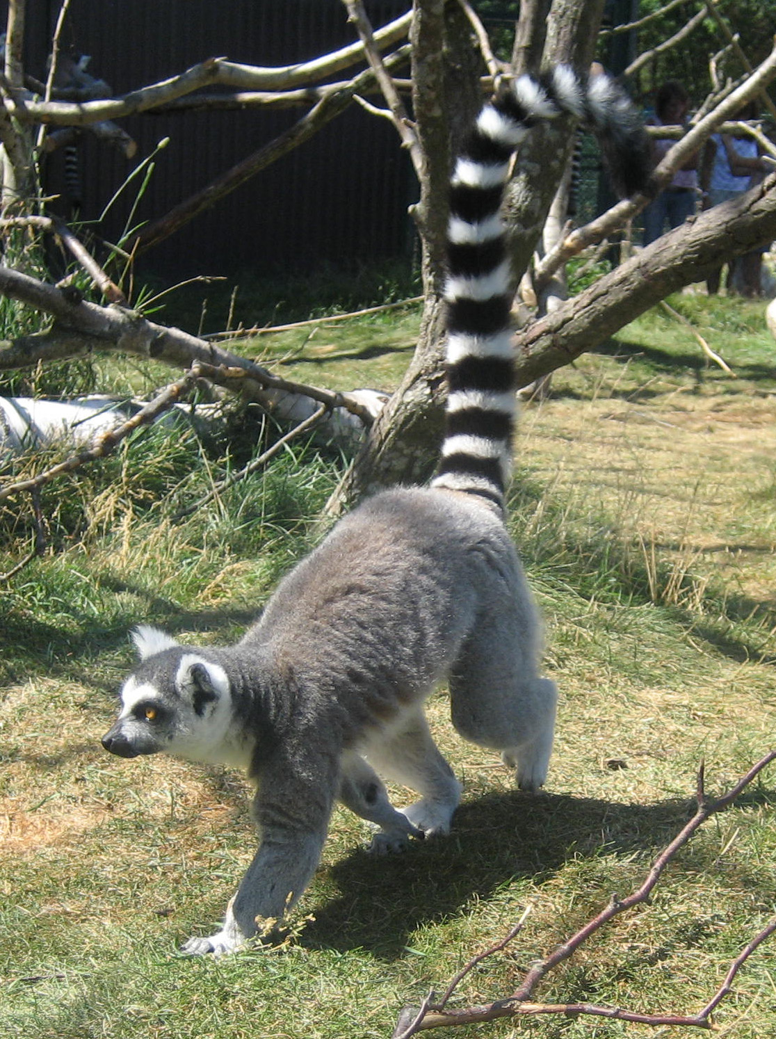 Lemur catta (Ring-tailed Lemur)